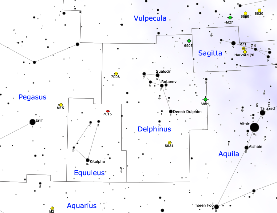 Map of Delphinus and Equuleus